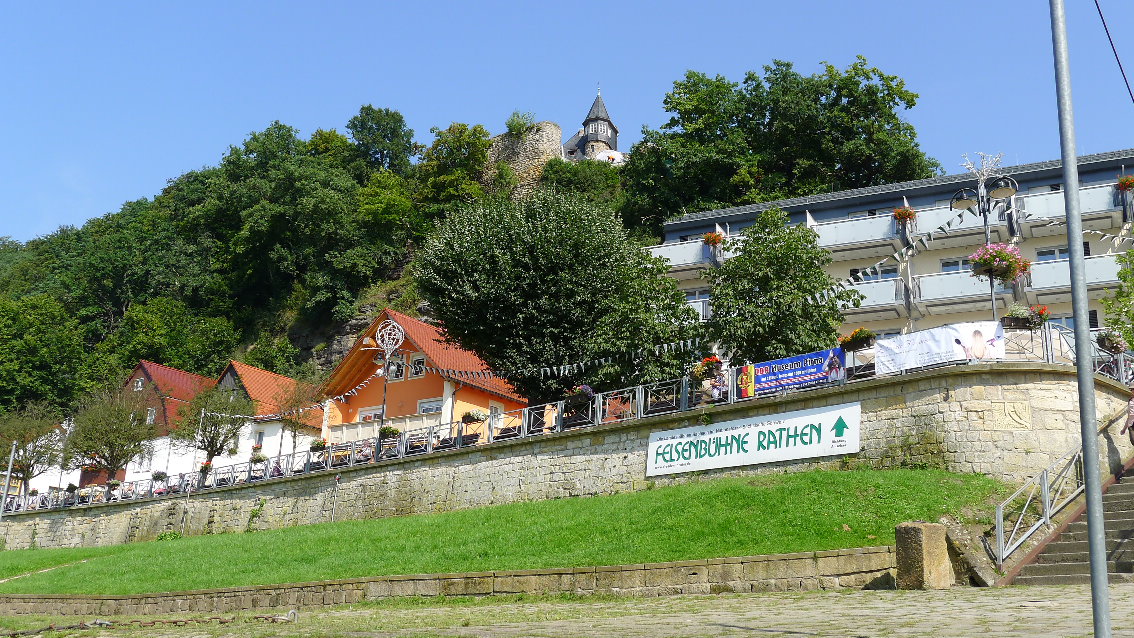 Rathen from the Elbe